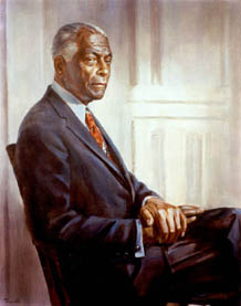 This is a portrait of Benjamin Mays, done by the artist Robert Templeton